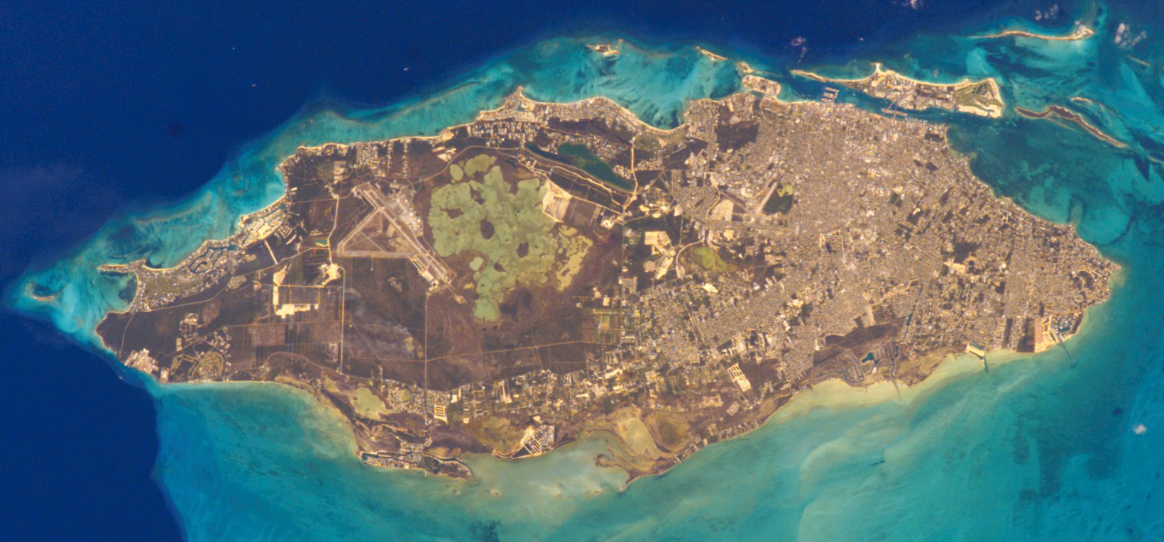 LANDSAT true color image of New Providence Island, Bahamas